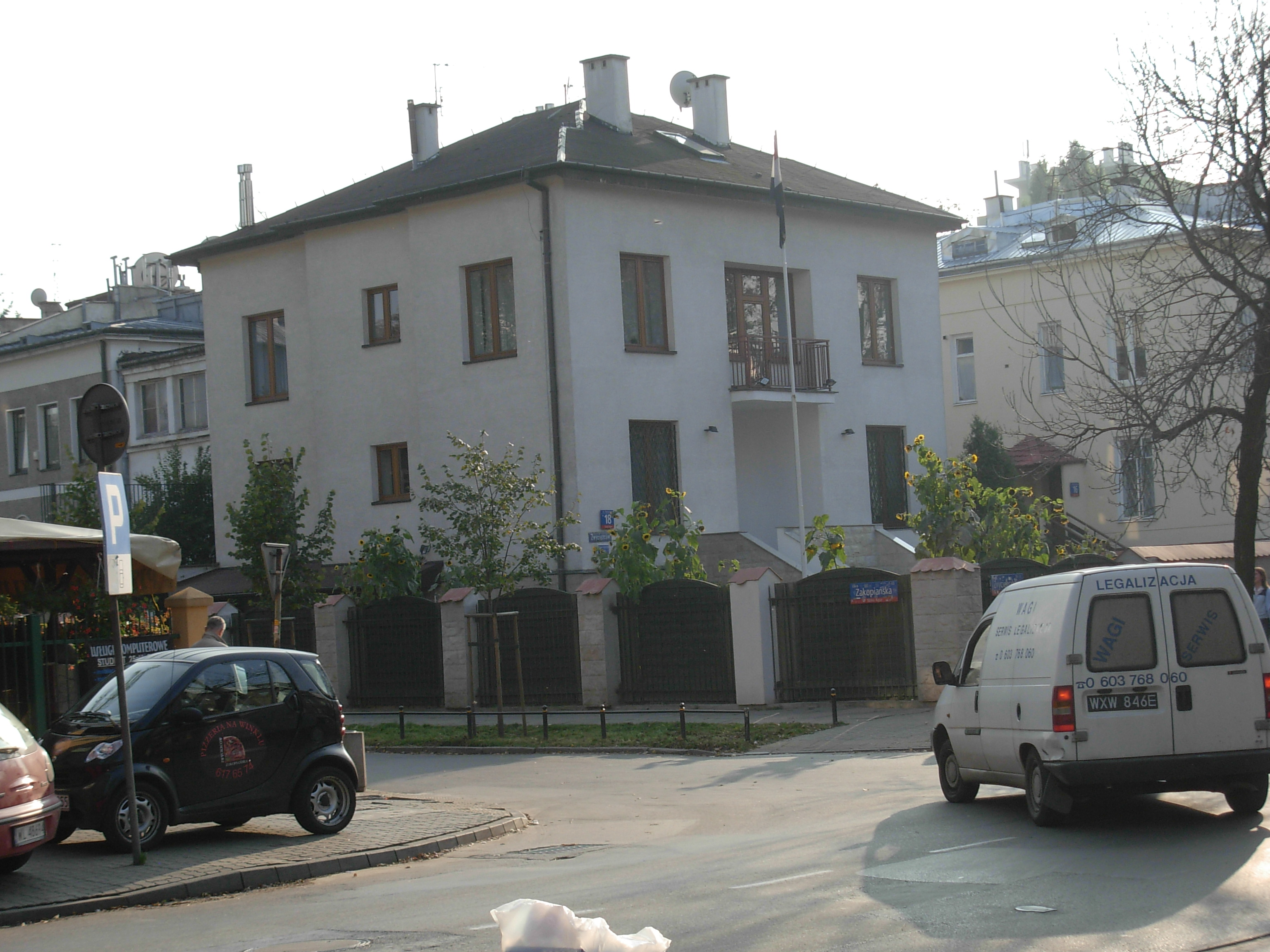 Embassy of Yemen in Warsaw